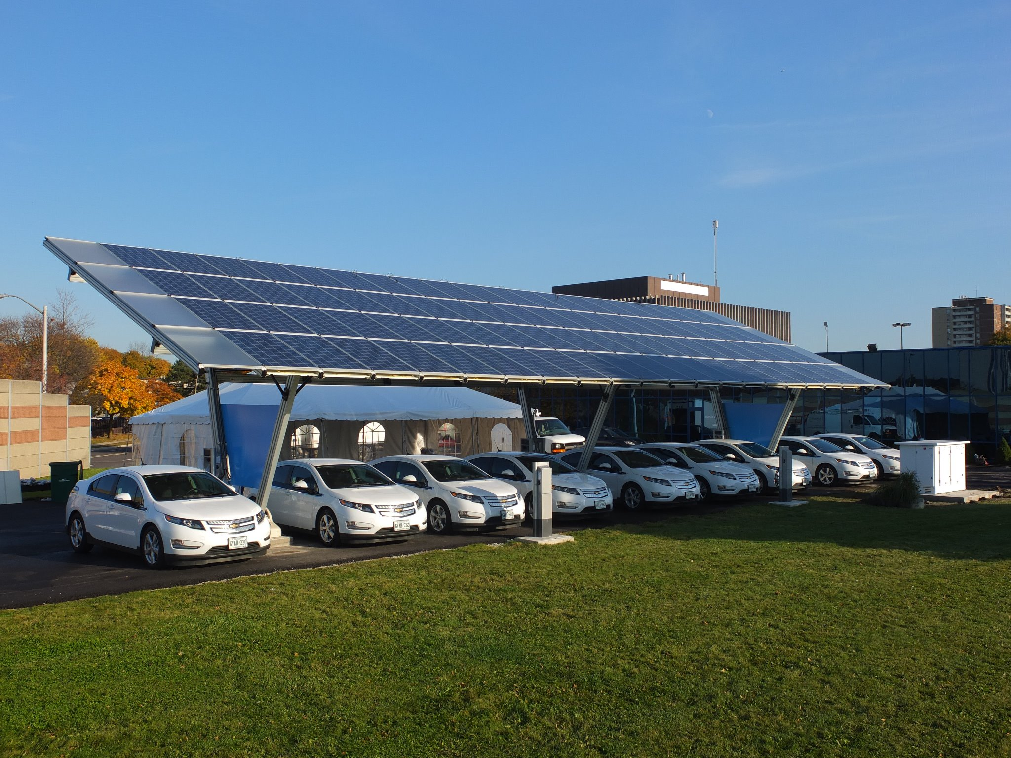 Baka Mobile - Toronto, Canada - North America biggest commercial charging stations Giulio Barbieri S.p.A and Renewz Sustainable Solutions Inc.